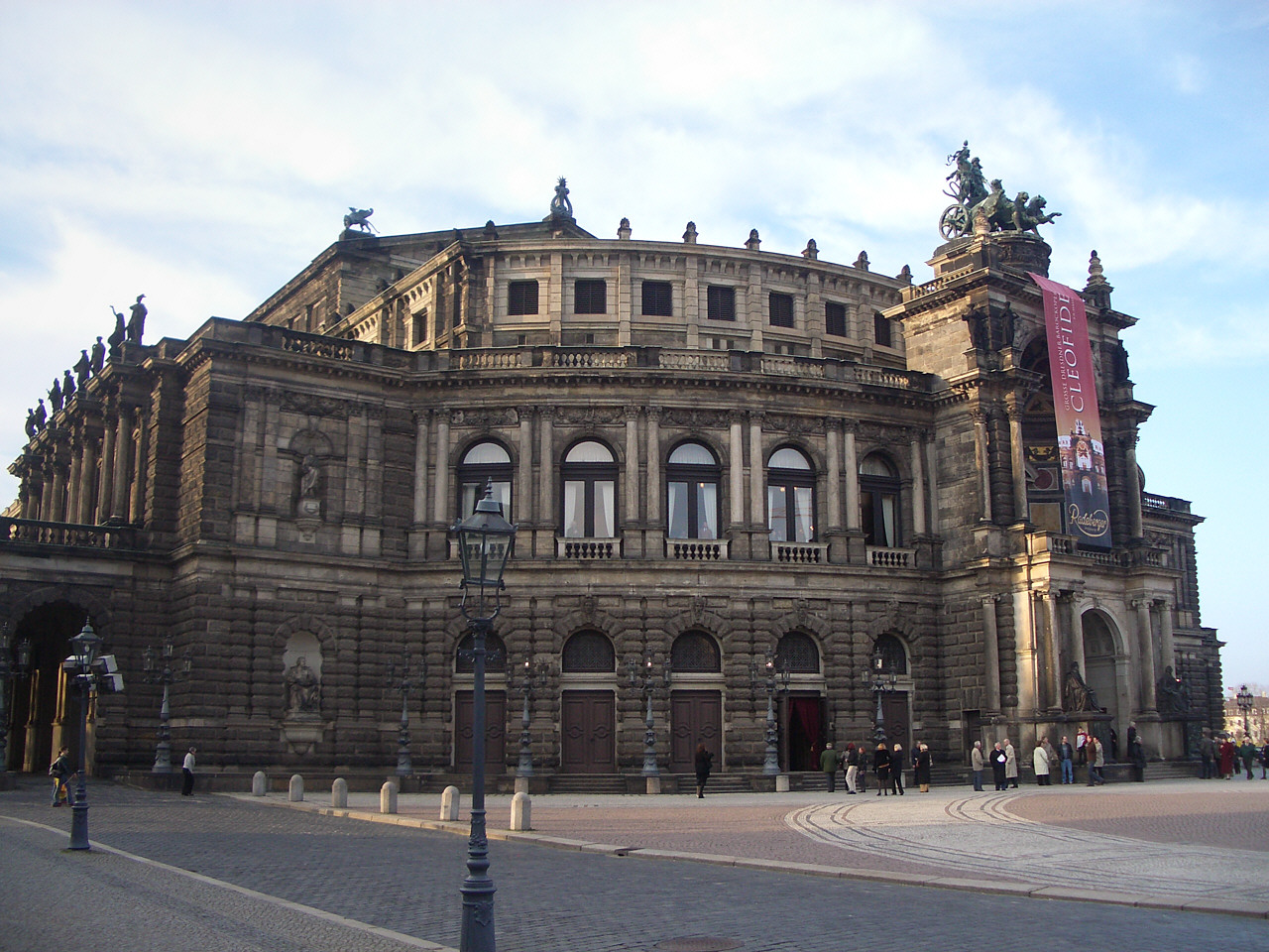 Dresden, Germany: Semperoper (opera house) from Theaterplatz (with a banner advertising a performance of Hasse's opera Cleofide)